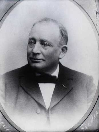 Danish businessman and politician, MP Andreas Schultz (1838-1915)